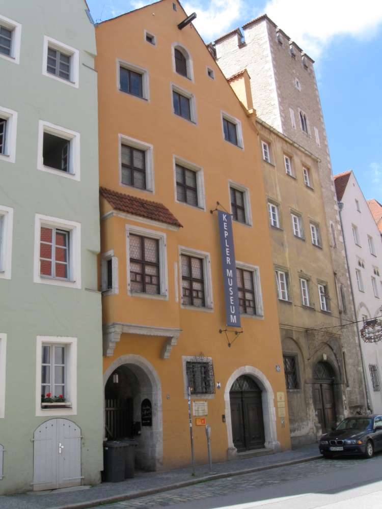 Kepler Museum in Regensburg, Germany